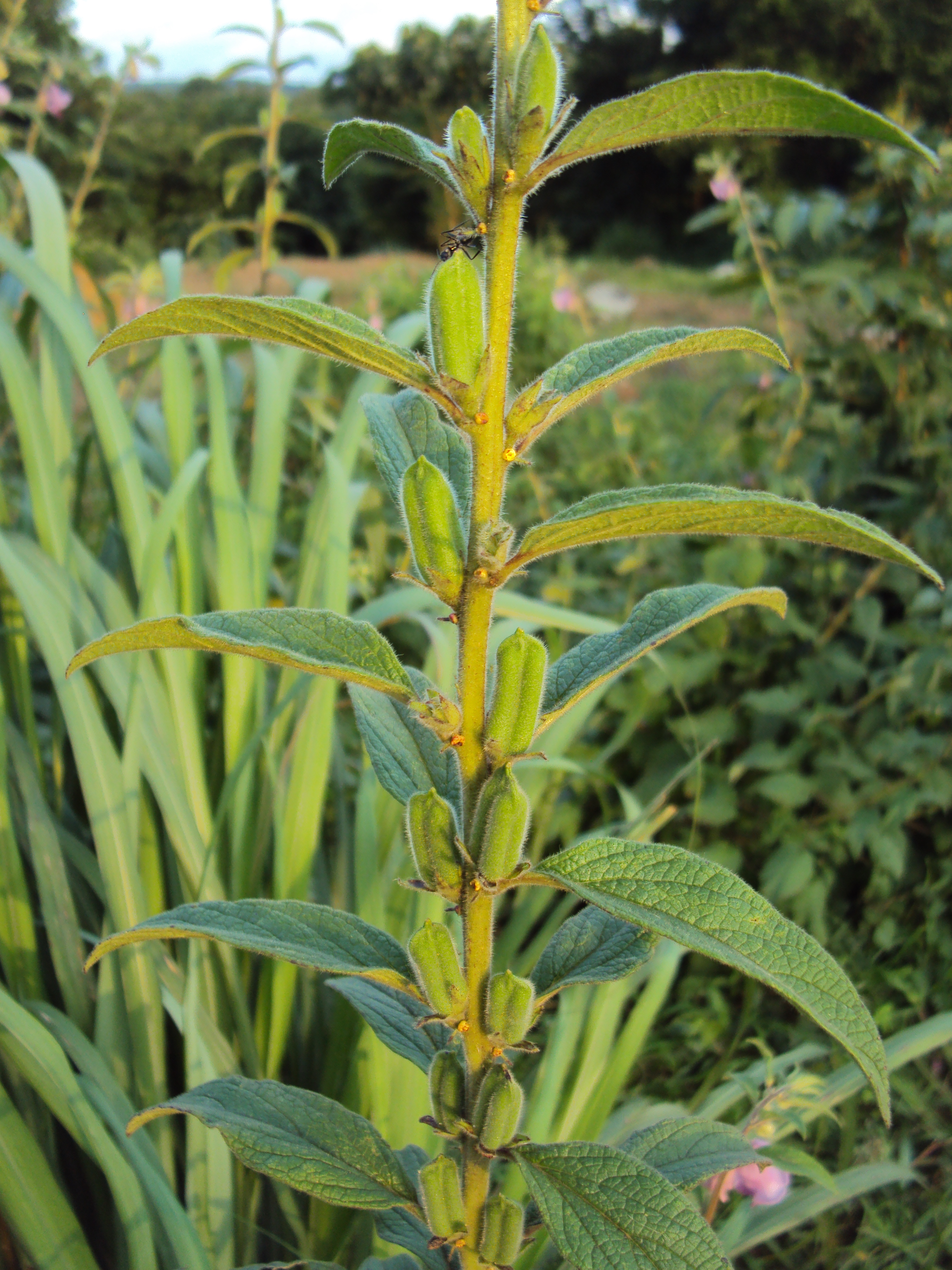 Sesamum indicum